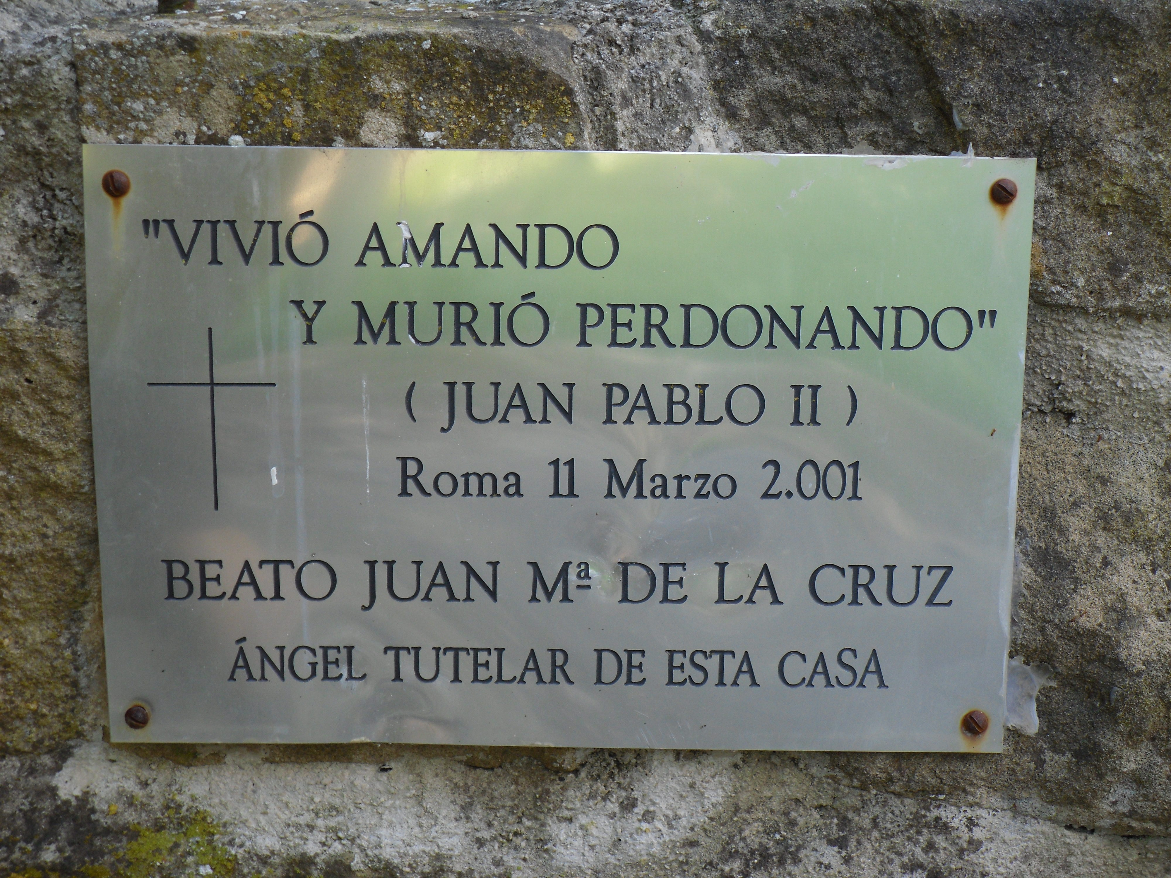 Placa dedicada al Beato Juan María de la Cruz.